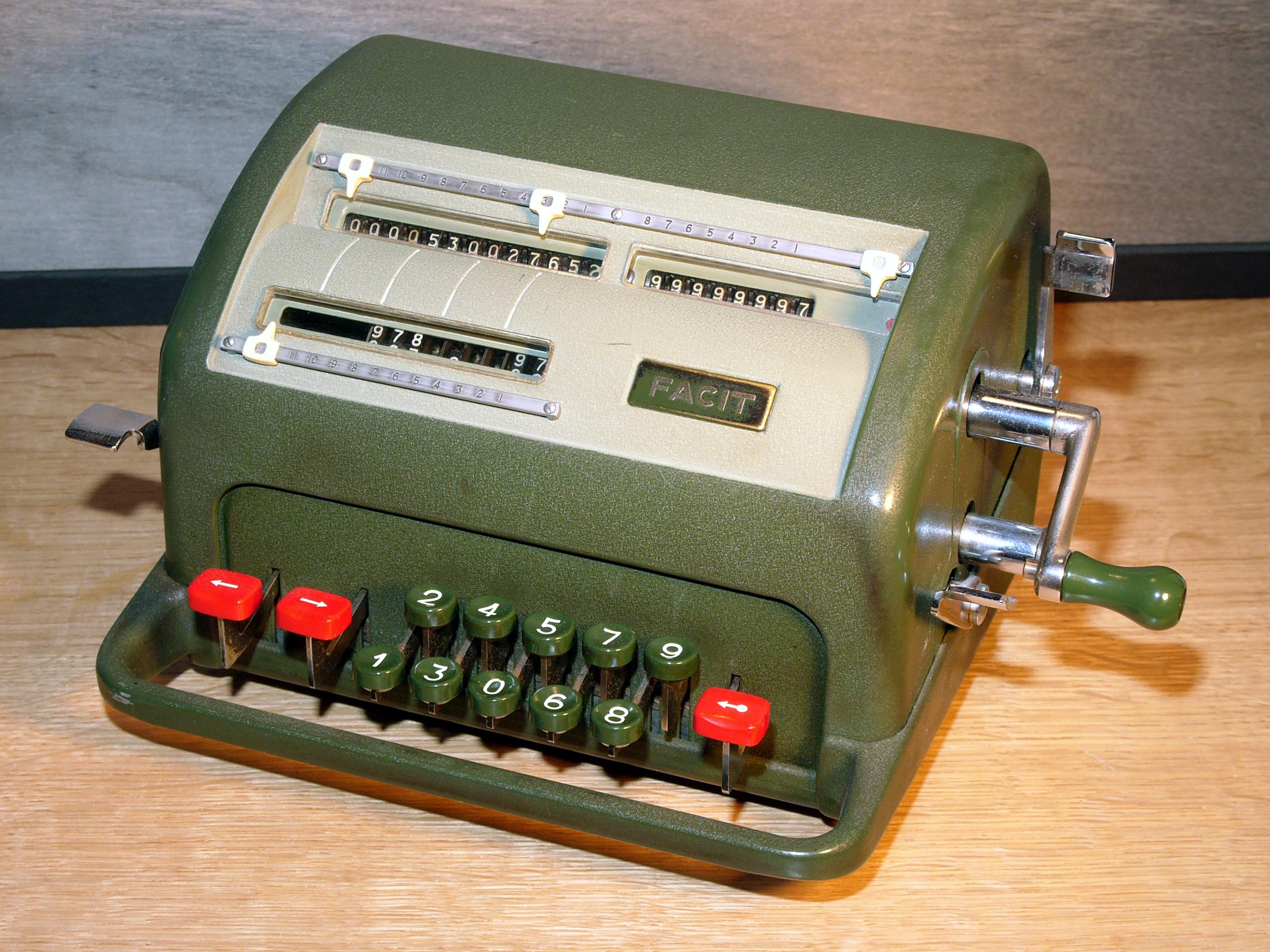 Swedish calculator FACIT build in 1954